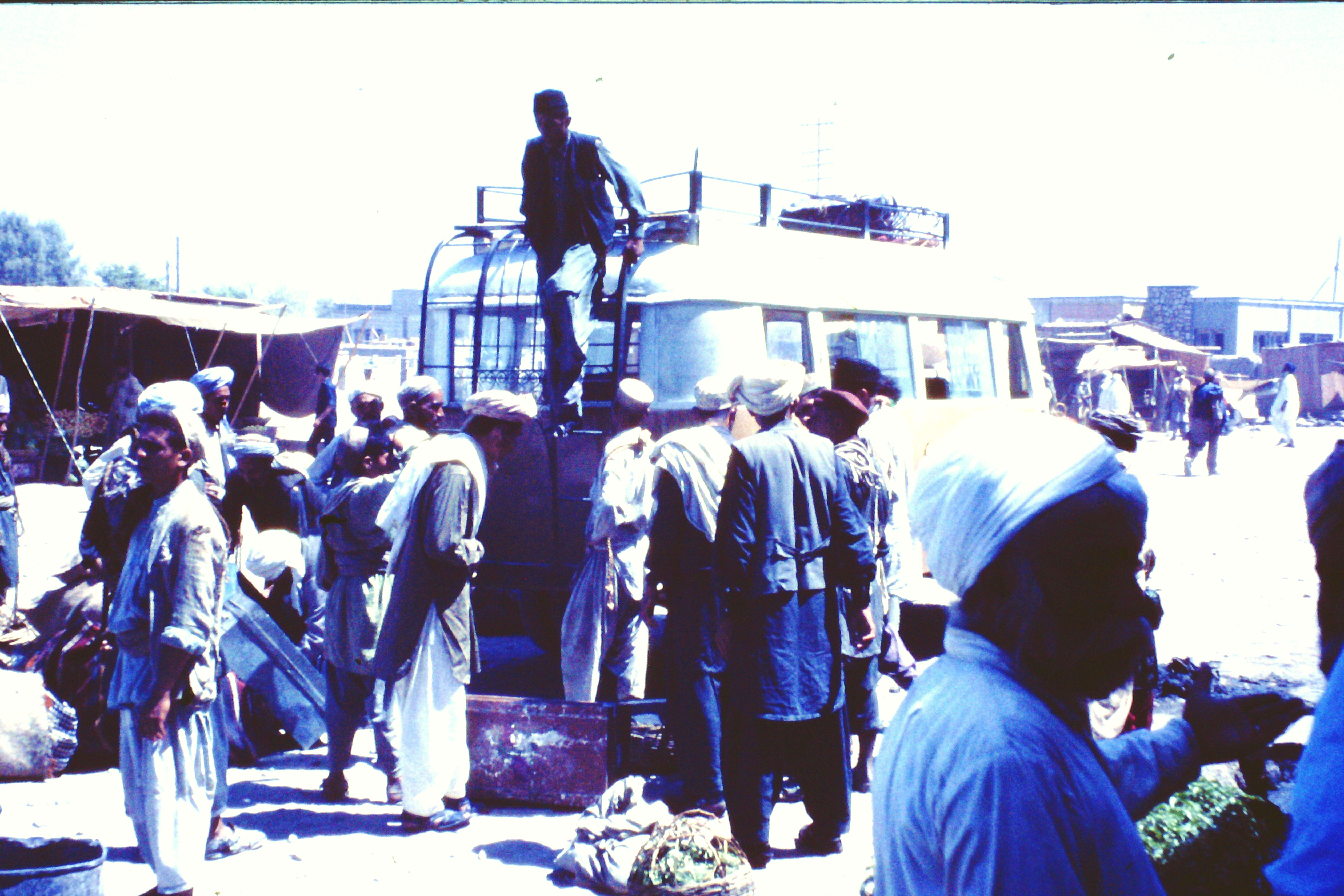 ....check-in at the bus terminal....